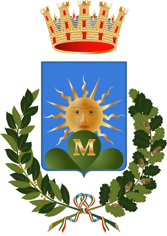 Coat of arms of Matino (Lecce), Italy